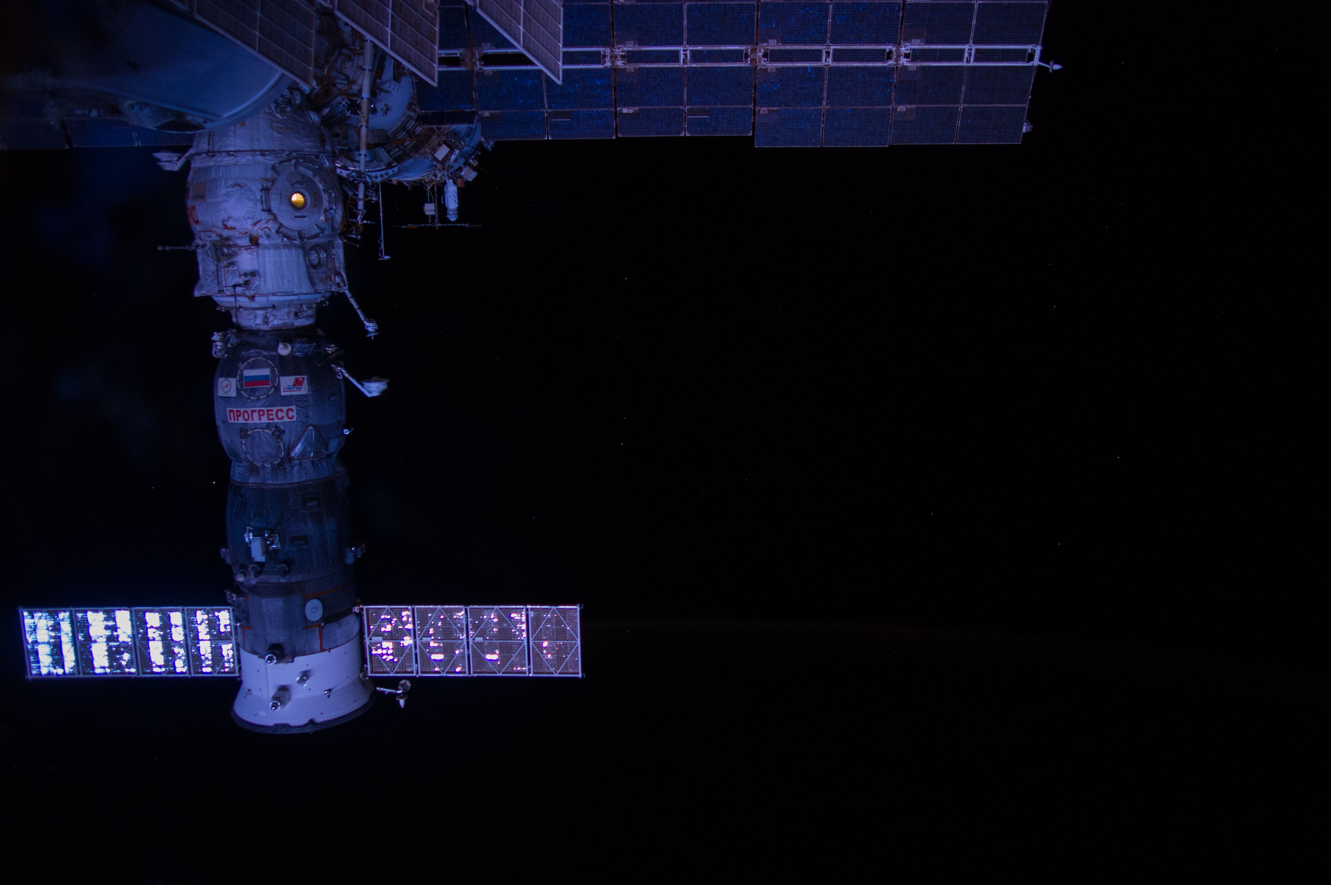 ISS040-E-017086 (23 June 2014) --- This nighttime view, featuring the ISS Progress 55 resupply vehicle docked to the Pirs Docking Compartment, was photographed by an Expedition 40 crew member on the International Space Station.